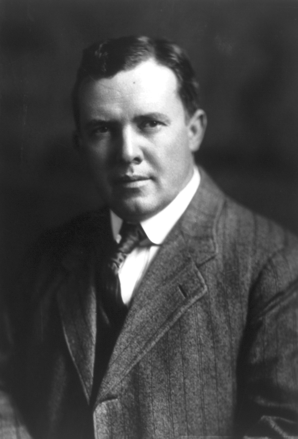 David John Lewis, former Maryland Congressman.